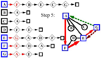 Dry run Depth-first search Algorithm in Graph, step 5